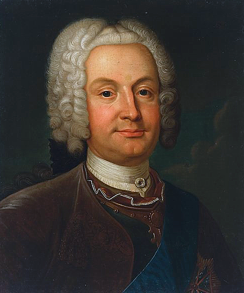 Jan Moszyński